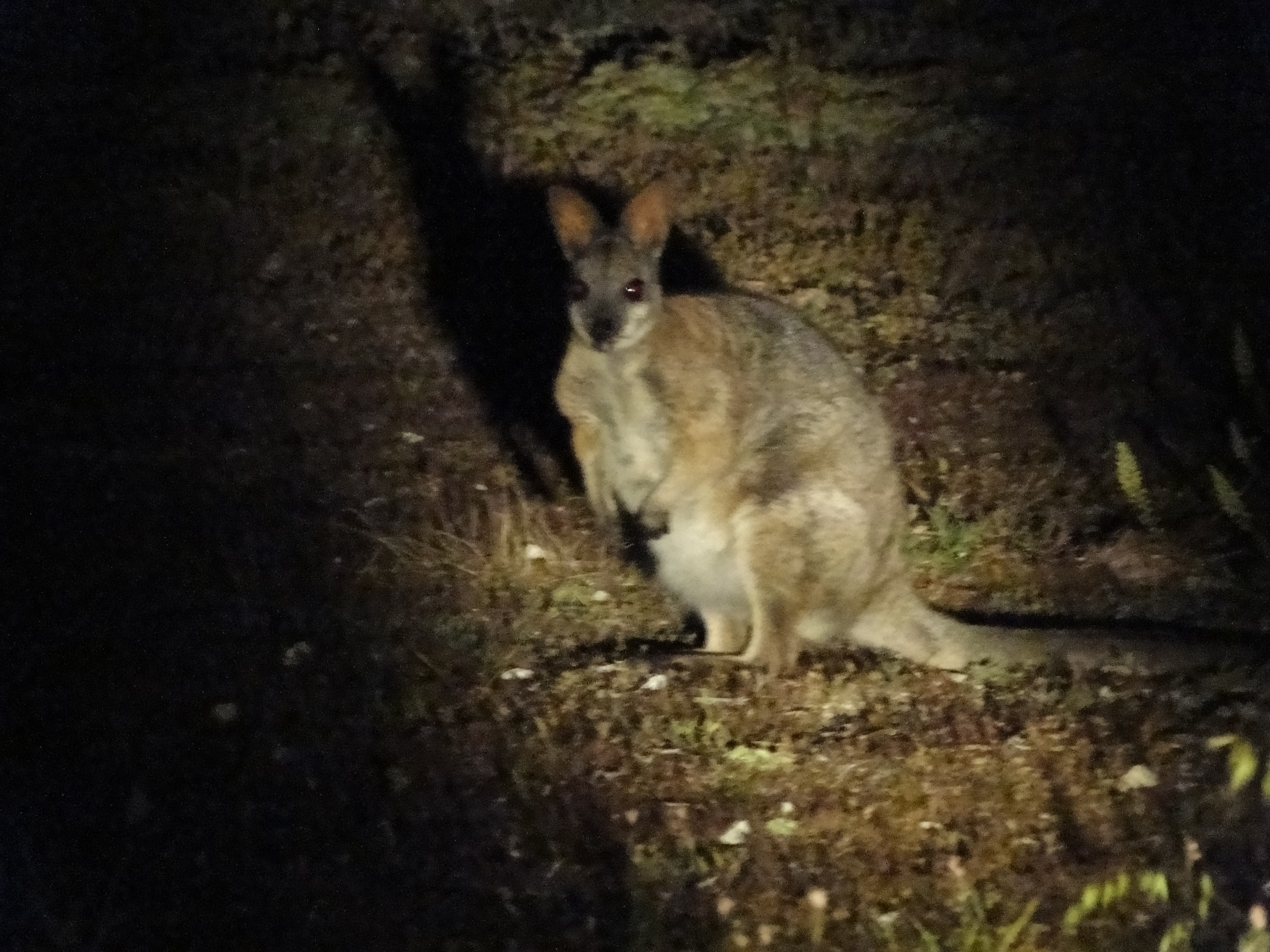 Tammar wallaby, Macropus eugenii eugenii, at Innes National Park, South Australia. This is the reintroduced subspecies that is listed as extinct in the wild.